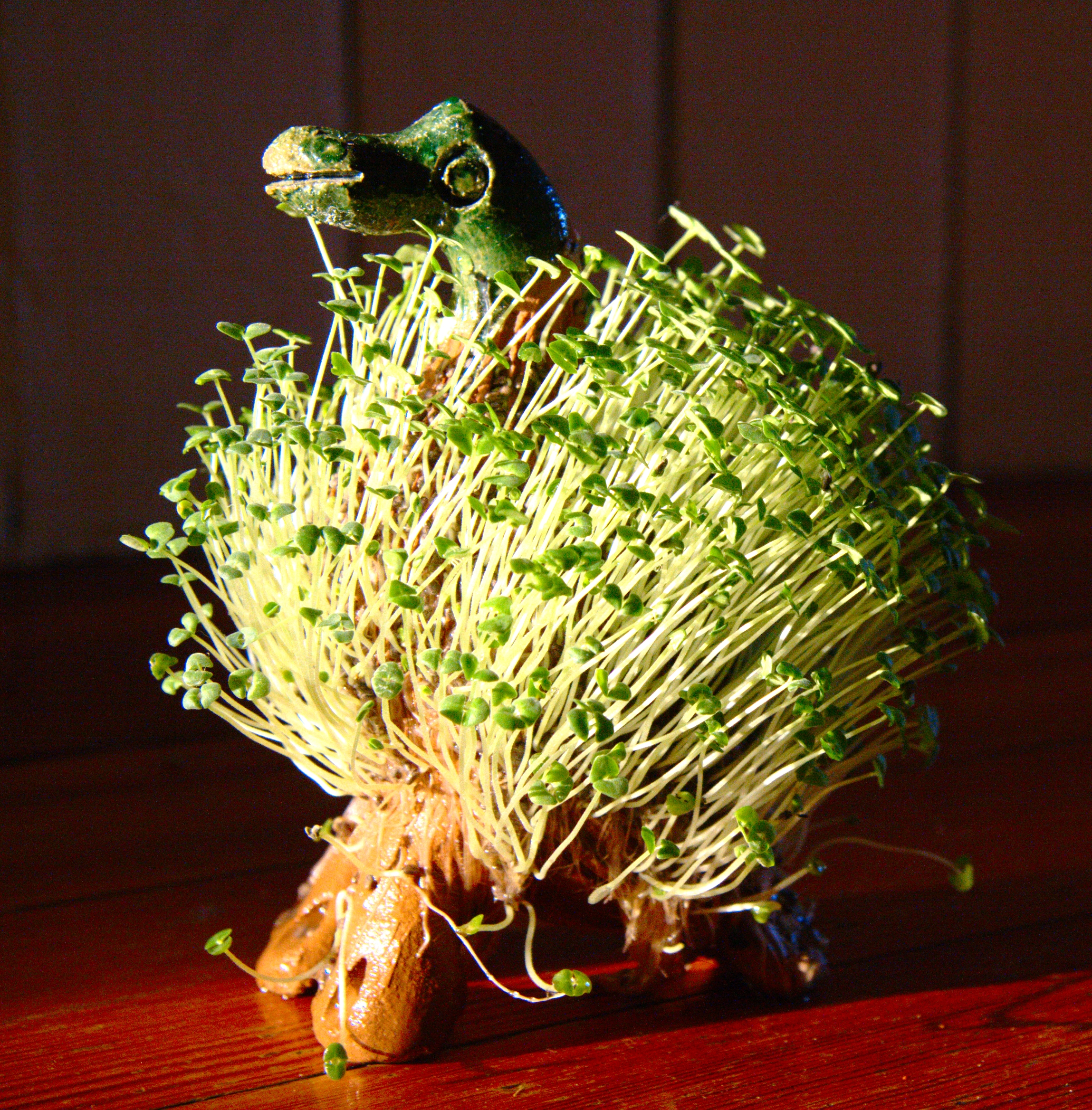 This is a clay duck figure from Mexico City with chia growing as its "fur".